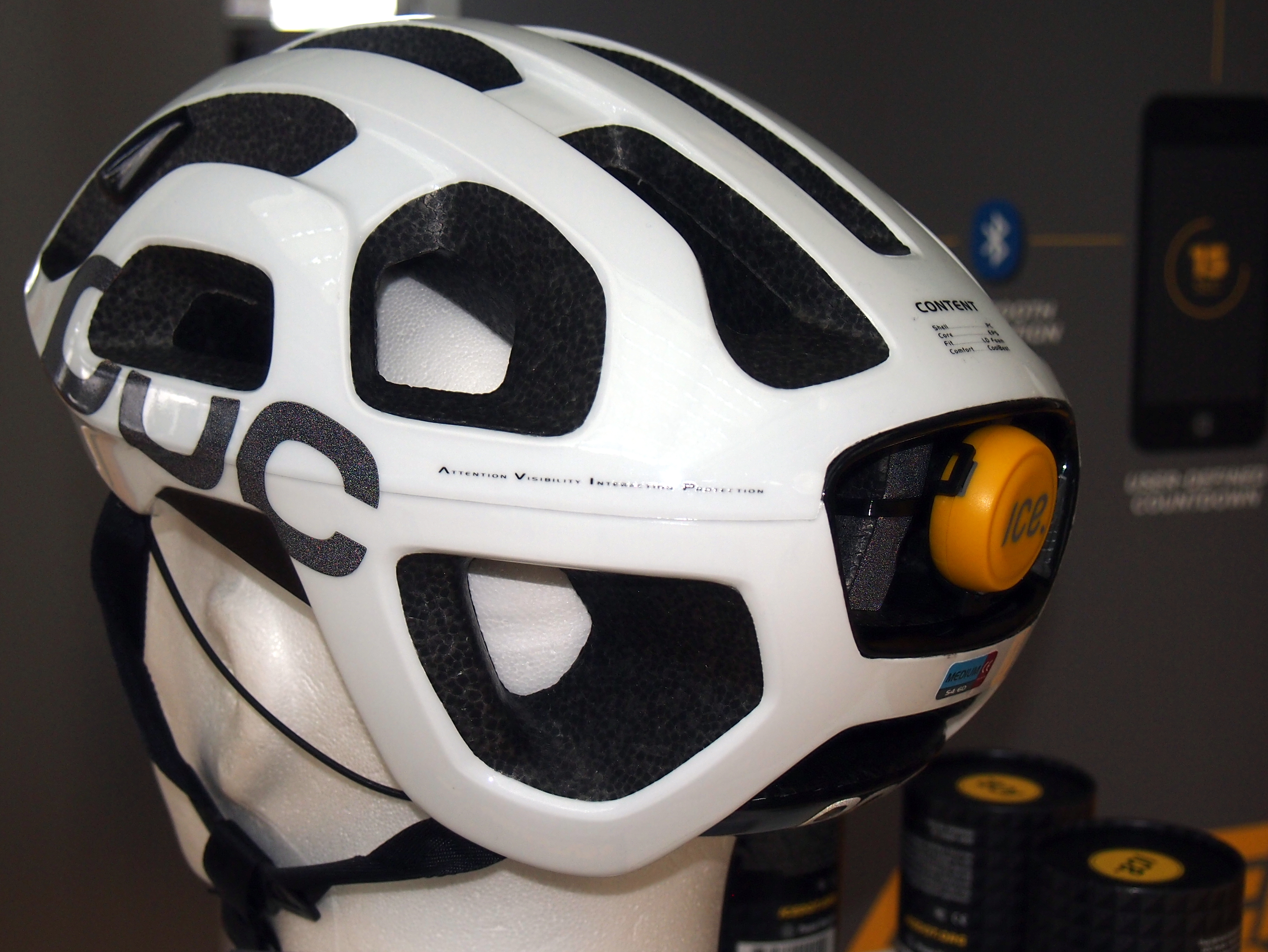 Helmet-mountable crash-sensor. Is connected to a mobile and can do an alarm-call in case of a severe impact. Manufactured from SportsCurve GmbH